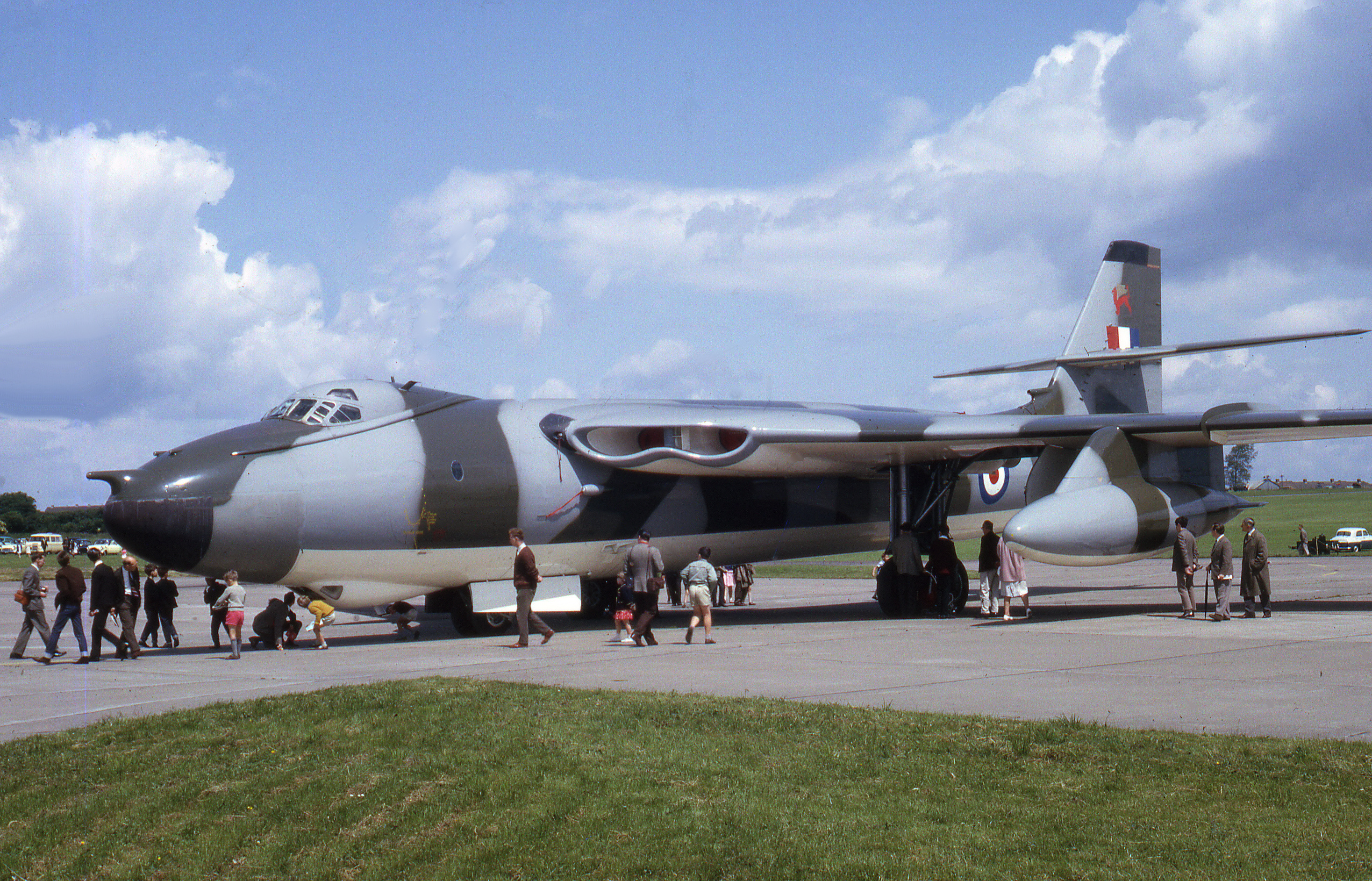 Vickers Valiant V Bomber at Bristol Filton Airport, southwest England. Date unknown, though clothing fashions and automobile suggests early 1960s. Photographed by Adrian Pingstone and released to the public domain.